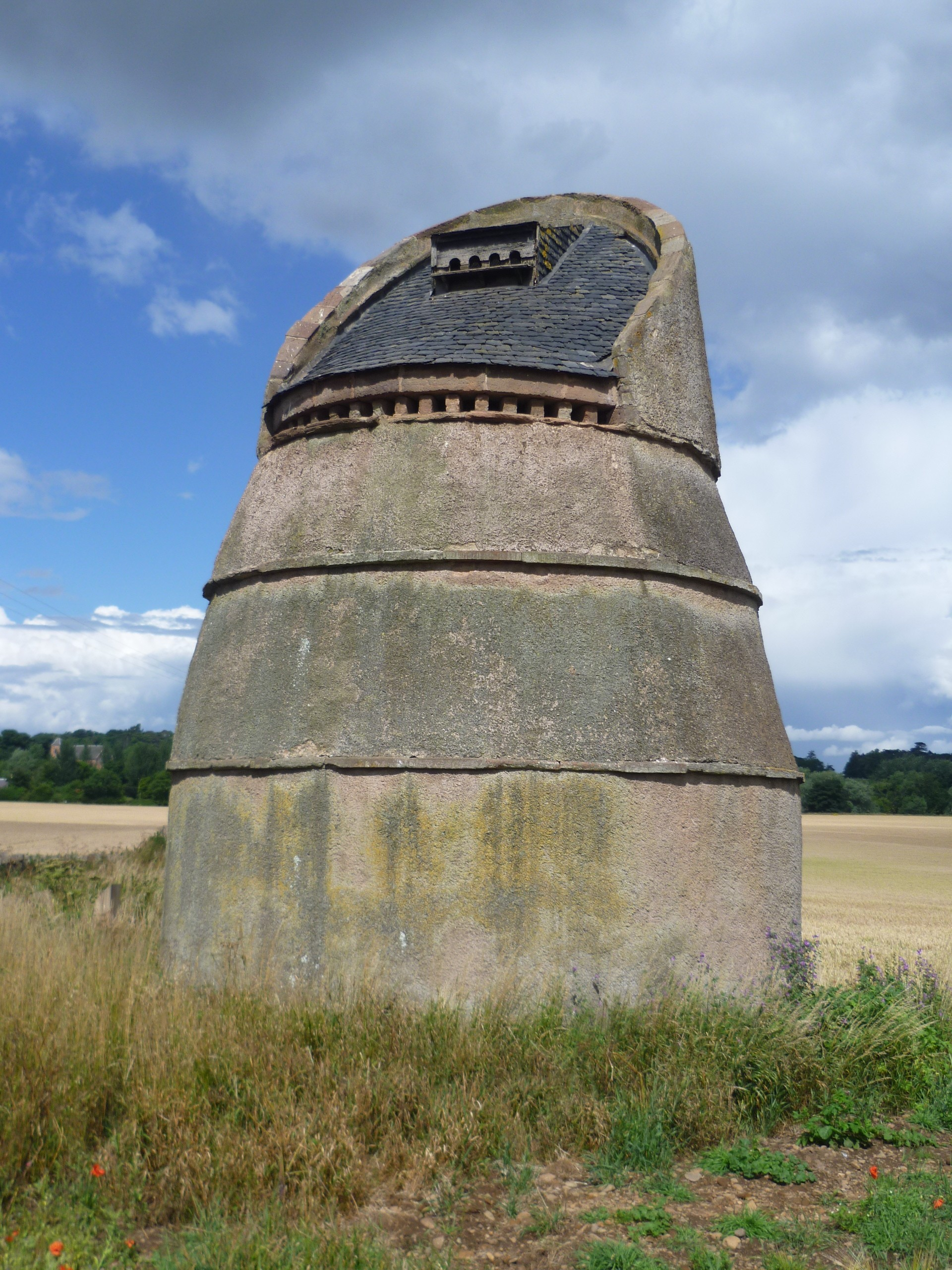 Phantassie doocot (16thC), East Lothian